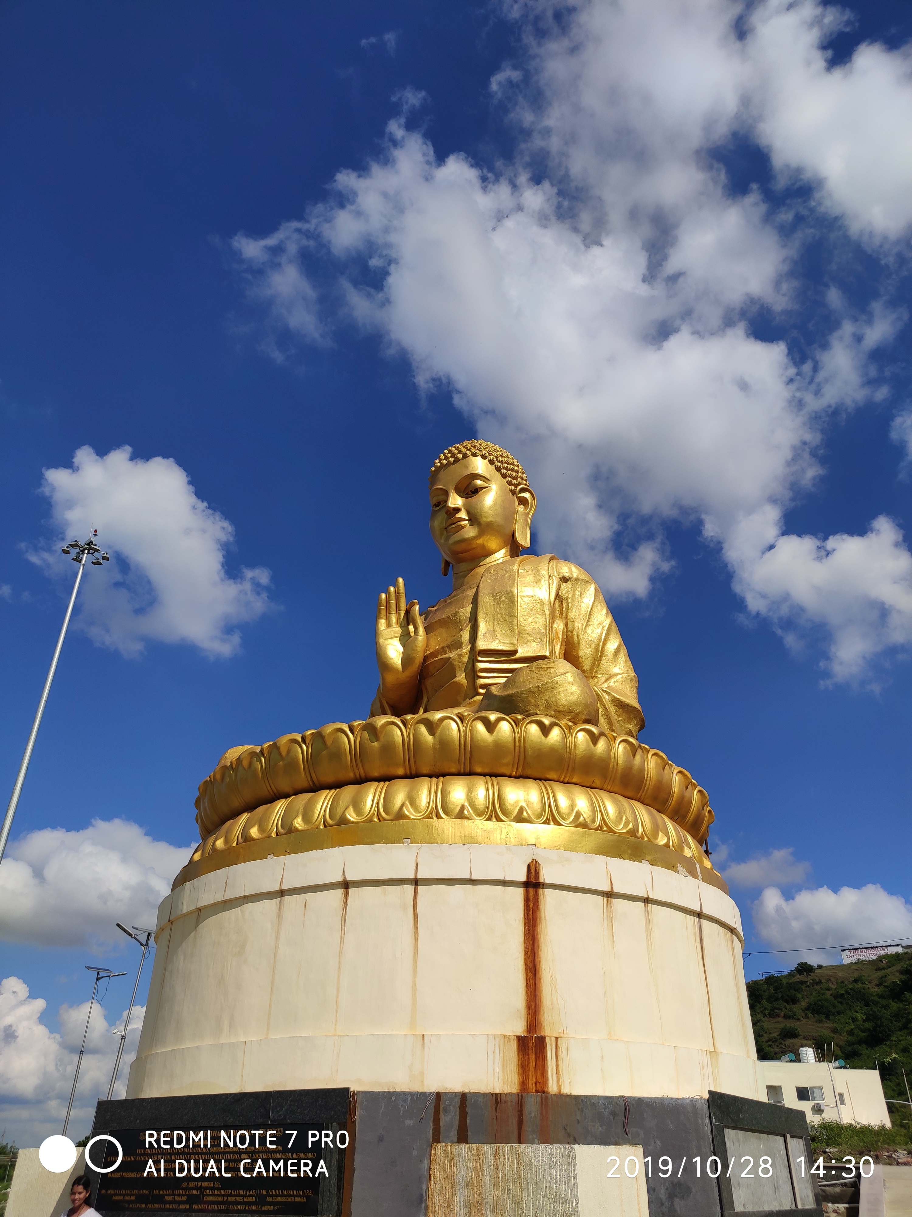 Large Buddha statue at Lokuttara Buddha Vihar in Chauka in Aurangabad district, Maharashtra, India.